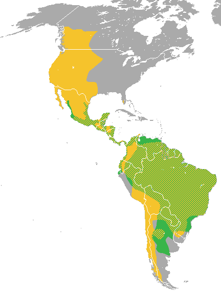 Range of the genus Puma. Created from species maps. yellow: Only Puma concolor green (rare): Only Puma yagouaroundi striped yellow/green: both species